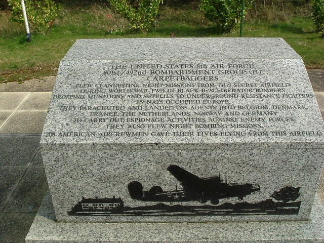 USAF memorial Close up